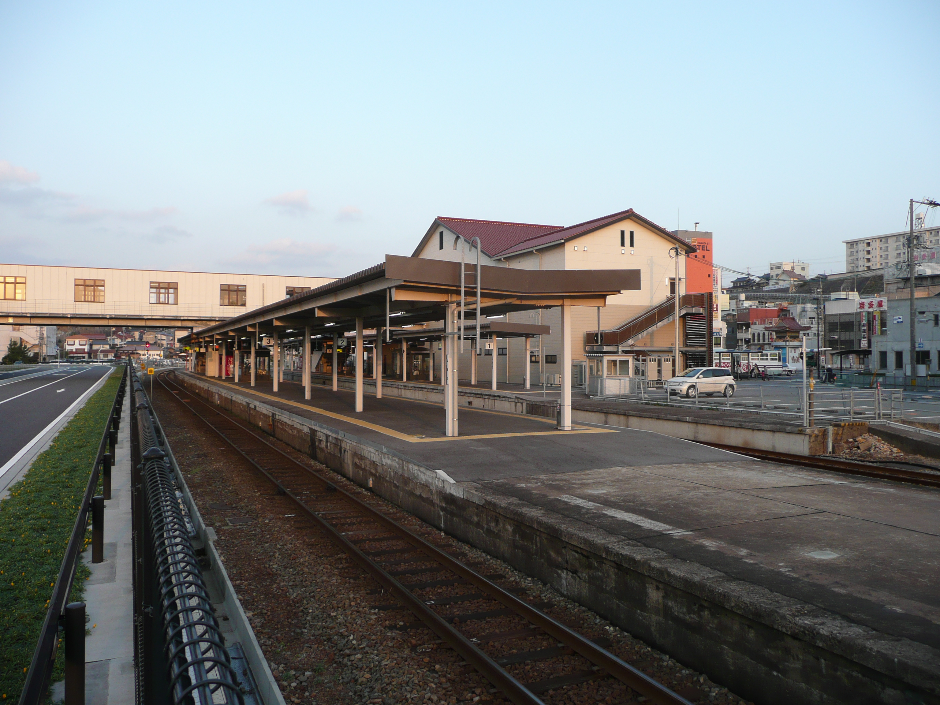 浜田駅のホーム